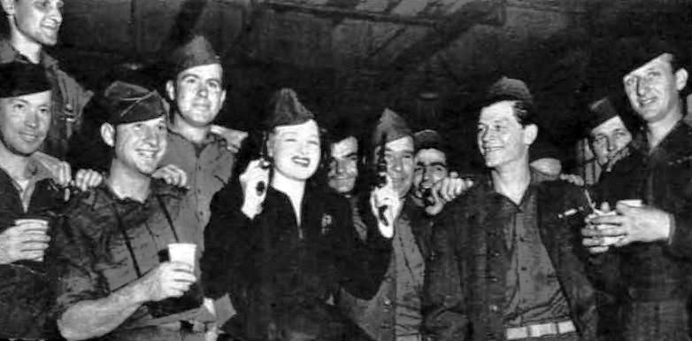 Photo of singer Jo Stafford with returning servicemen from the 35th Division. Stafford, who was working on The Ford Show and Chesterfield Supper Club at the time, was a favorite of servicemen. She went to the dock to meet the Queen Mary to welcome the men back to the US.